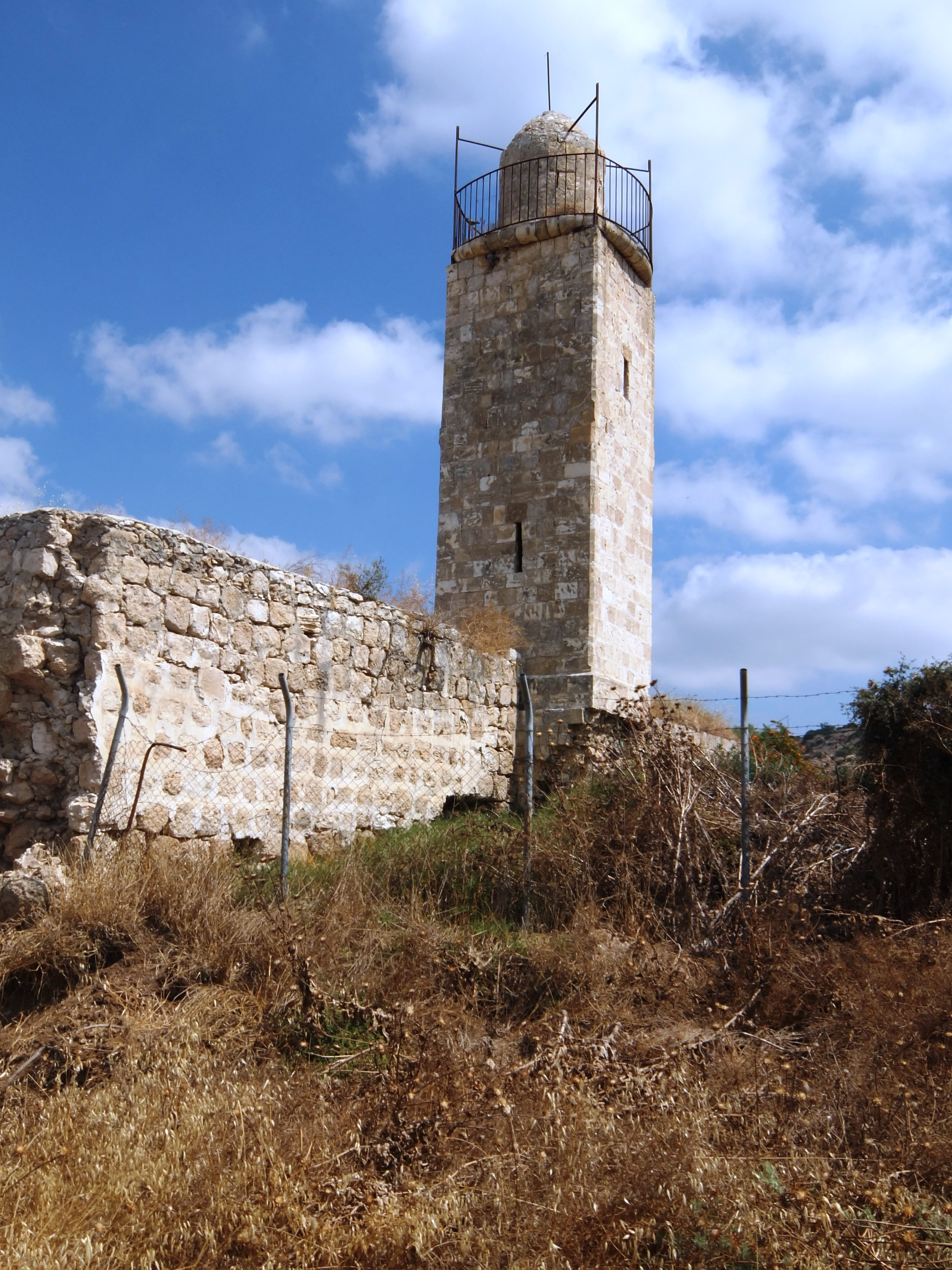 Remains of a minaret and mosque from an earlier period in Zakariah's history